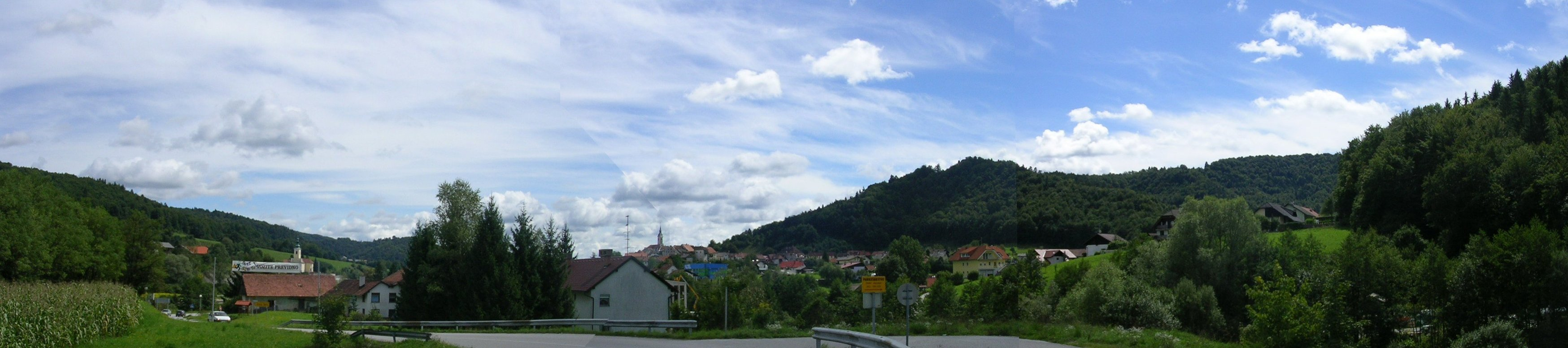 Panorama of Višnja Gora. Panorama created by the camera itself.